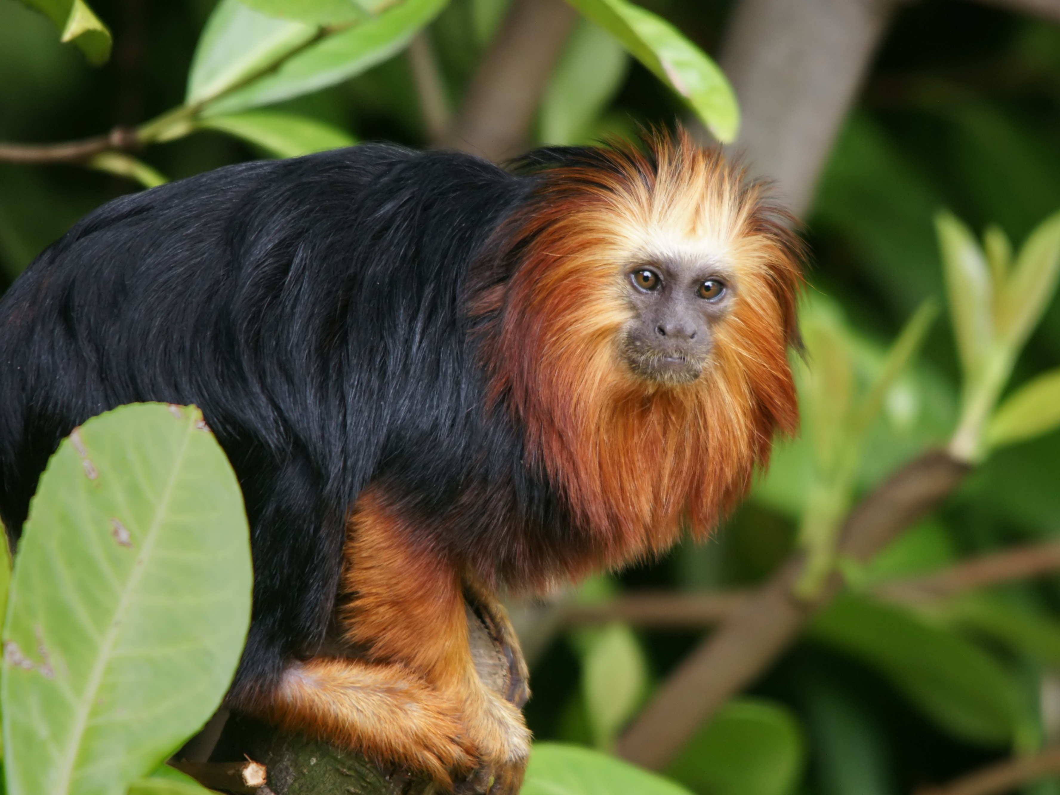 Golden-headed Lion Tamarin at Chester Zoo near Chester, UK.